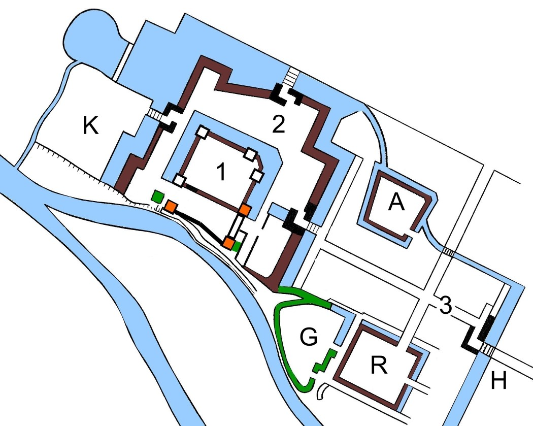 Layout of former Ueda Castle